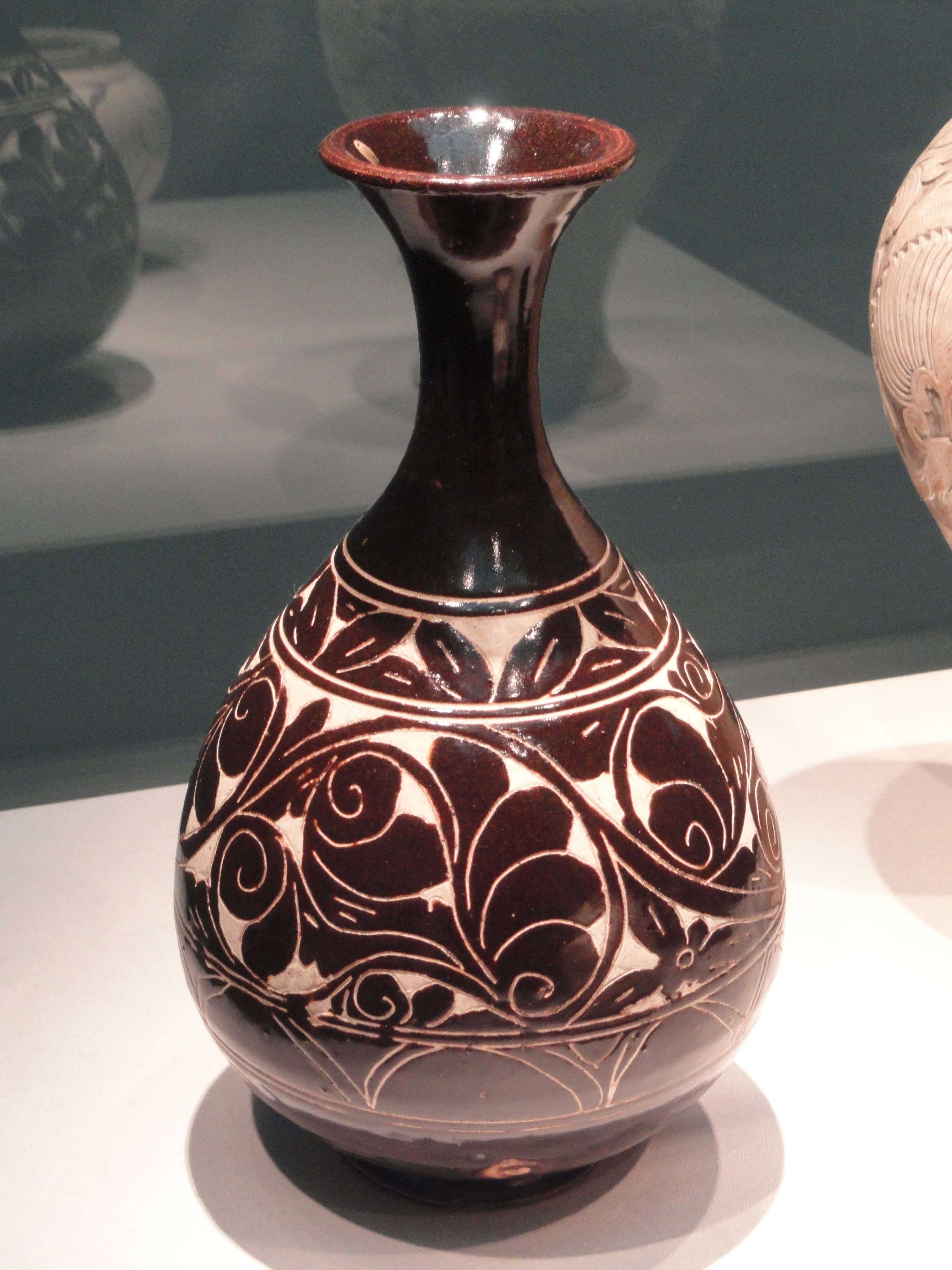 Exhibit in the Freer Gallery of Art, Washington, DC, USA. This artwork is old enough so that it is in the public domain.